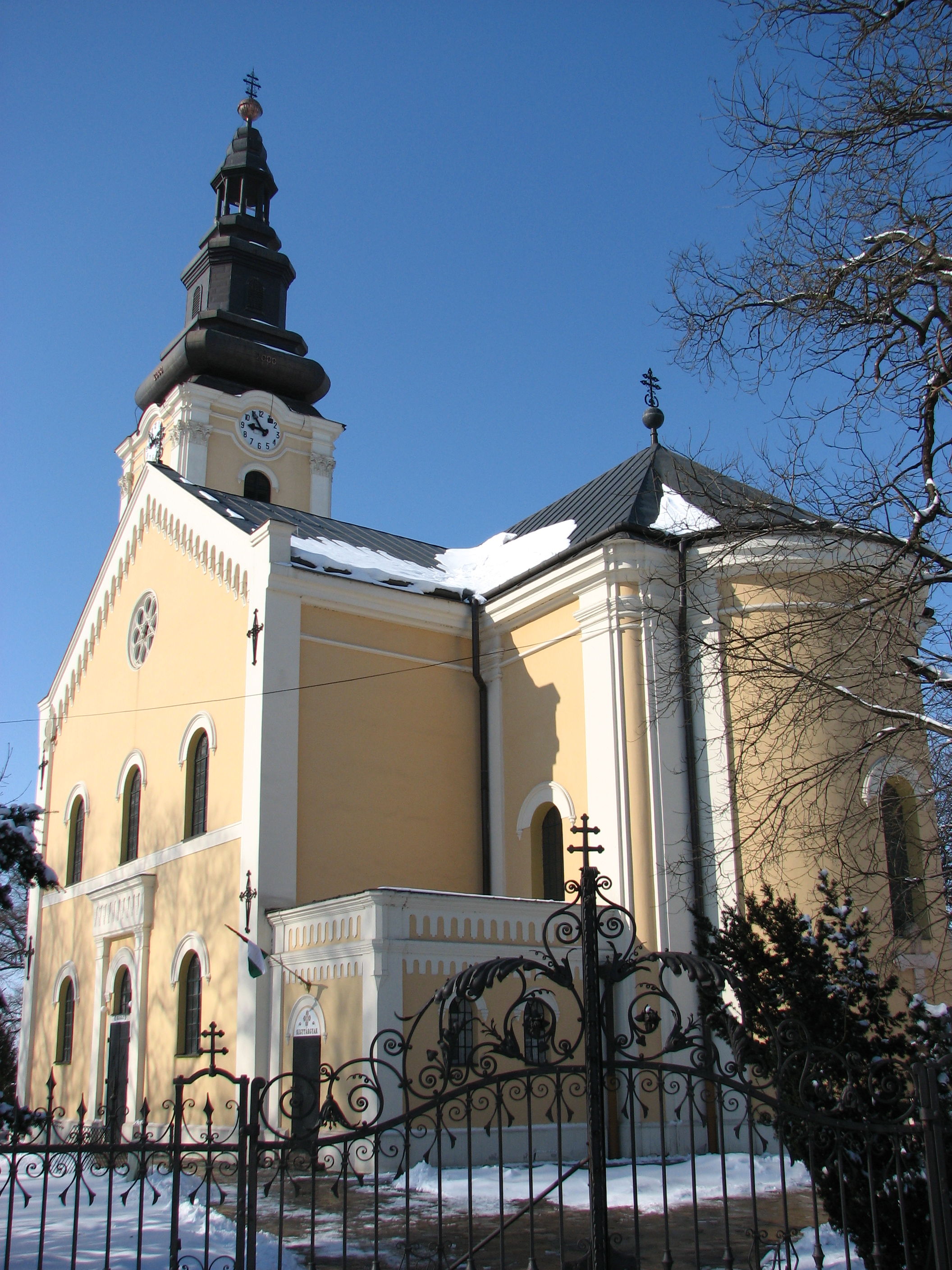 The Greek Catholic Cathedral of Hajdúdorog, Hungary.